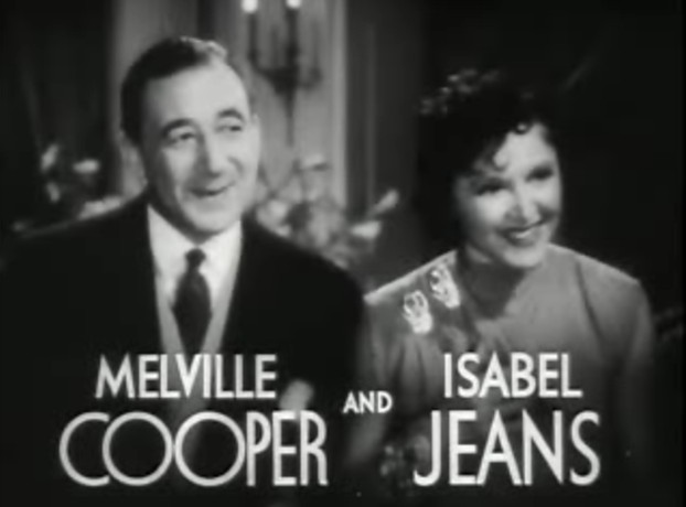 Cropped screenshot of Melville Cooper and Isabel Jeans from the trailer for the film Tovarich.